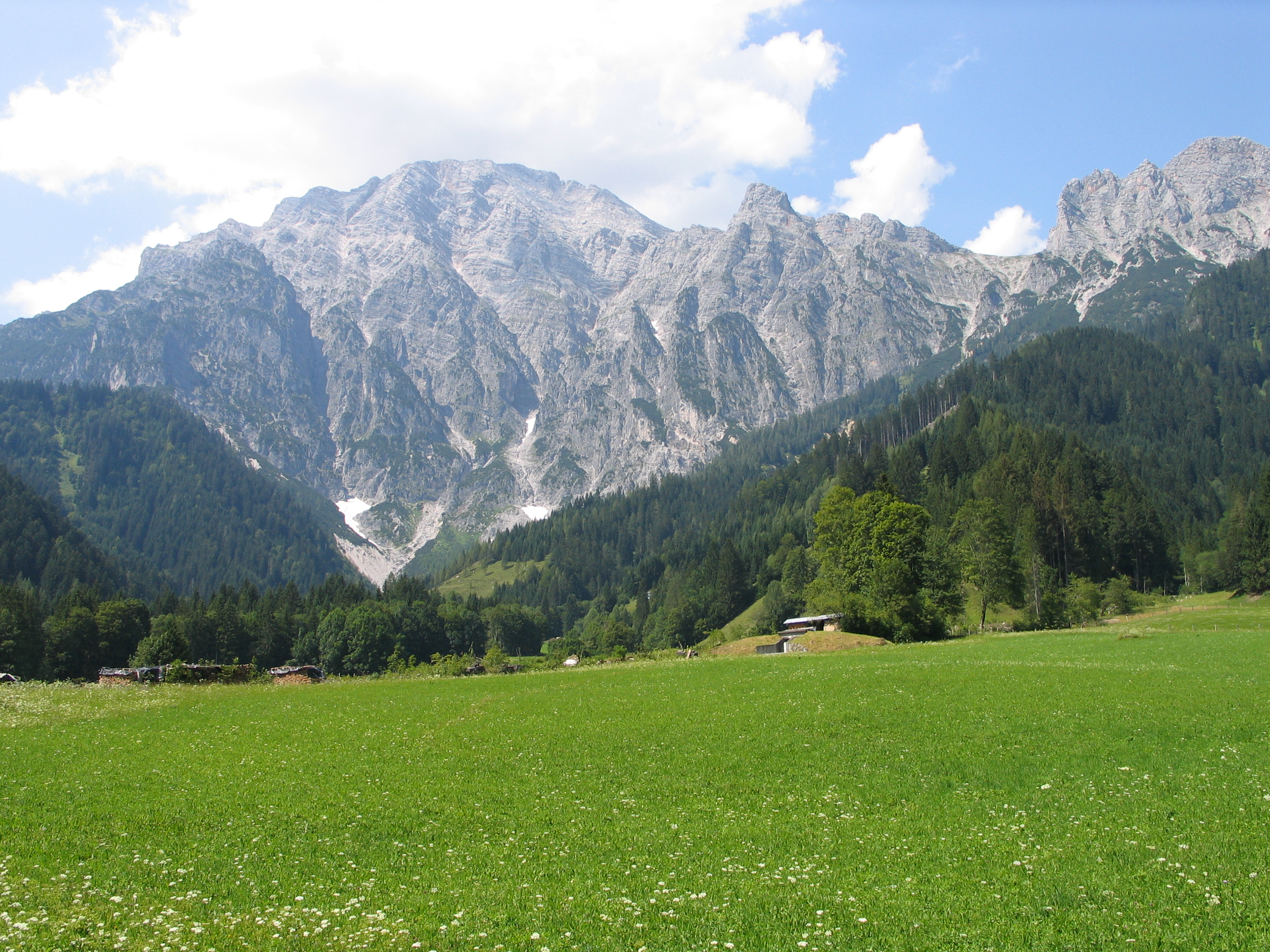 Birnhorn from South, Leoganger Steinberge